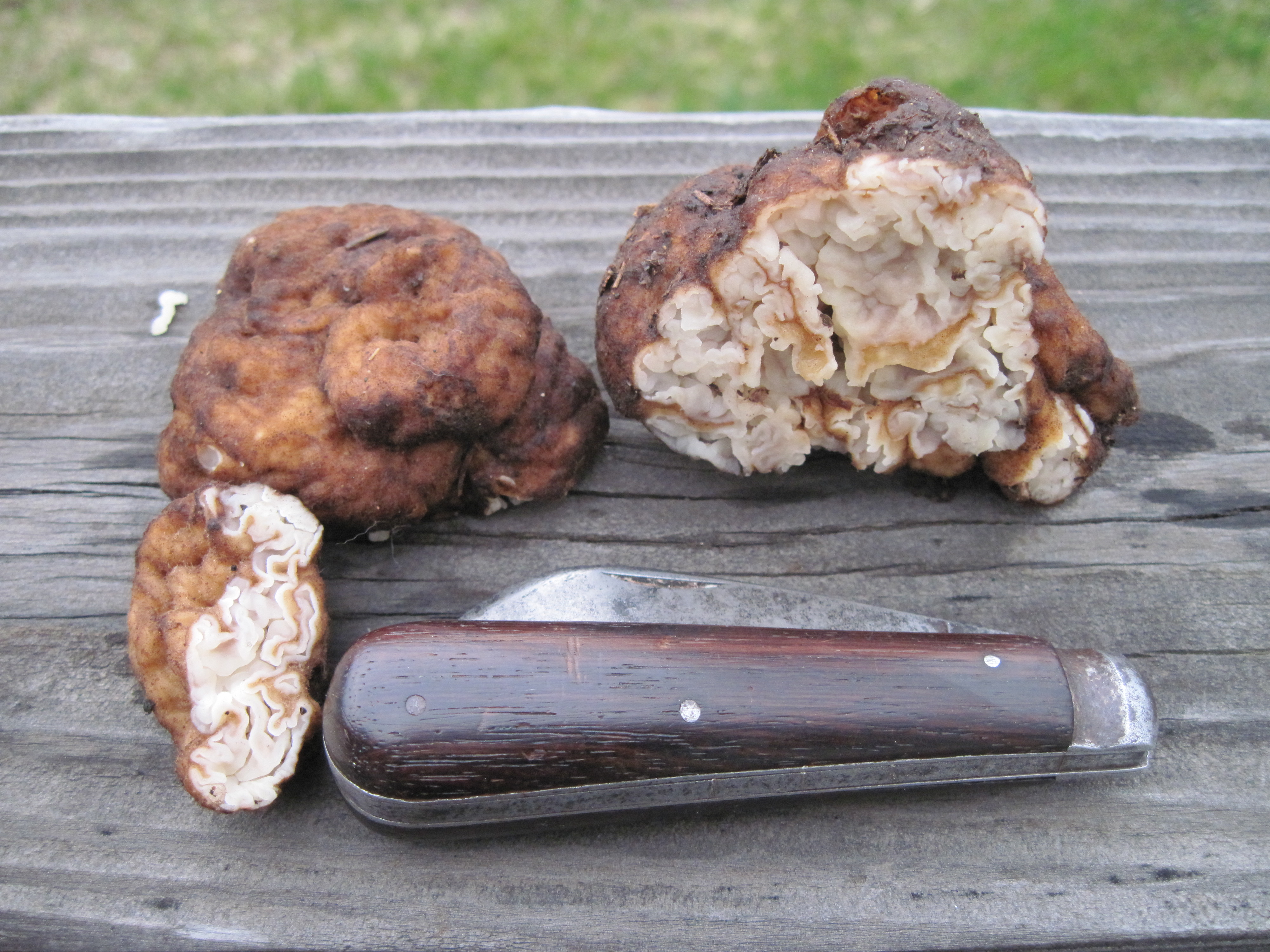 Fruit bodies of the truffle-like fungus Geopora cooperi. Specimens collected from North Lakeport, Lake Co., California, USA.